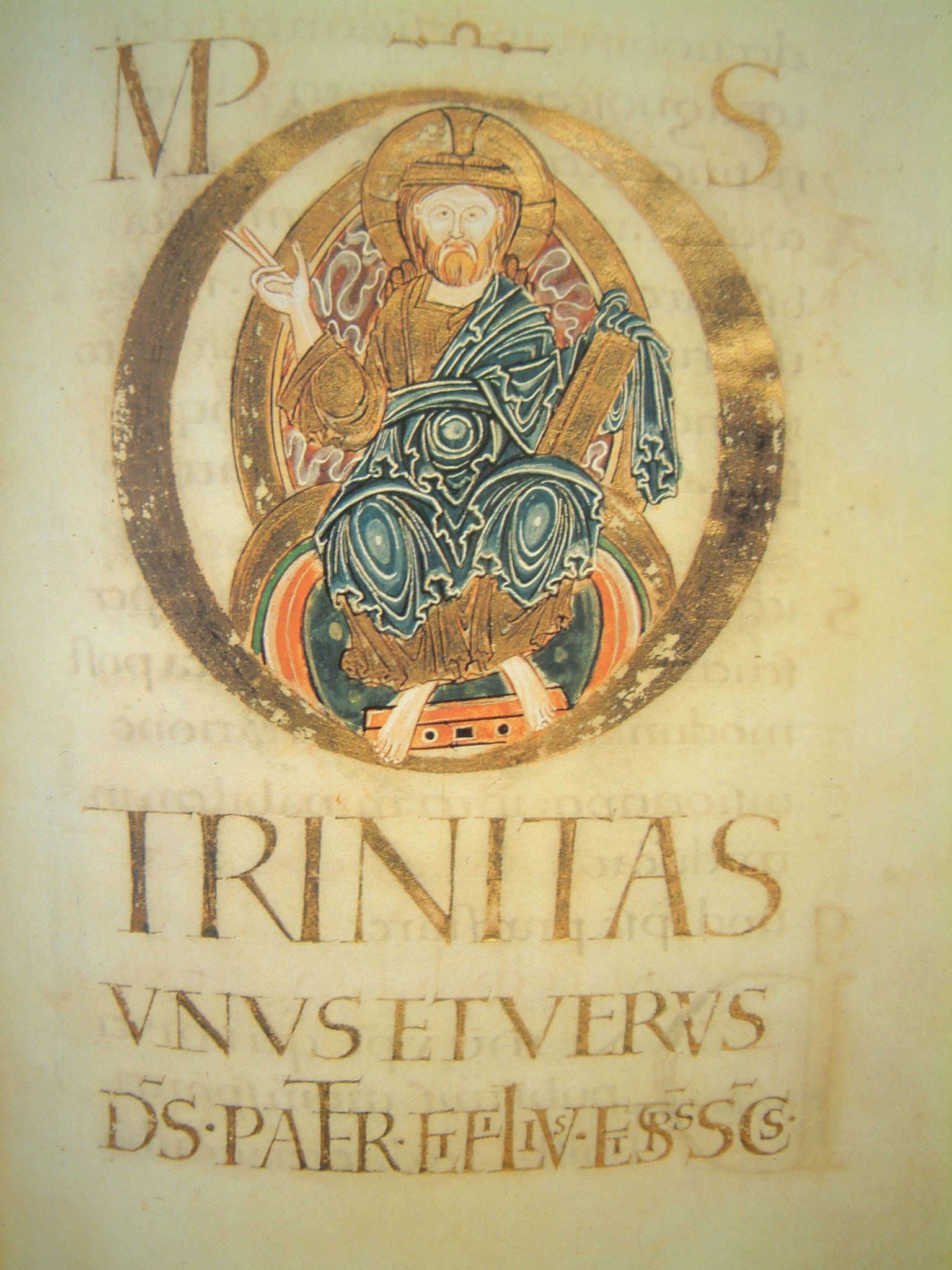 Benedictional of St. Æthelwold, folio 70 depicting the Holy Trinity